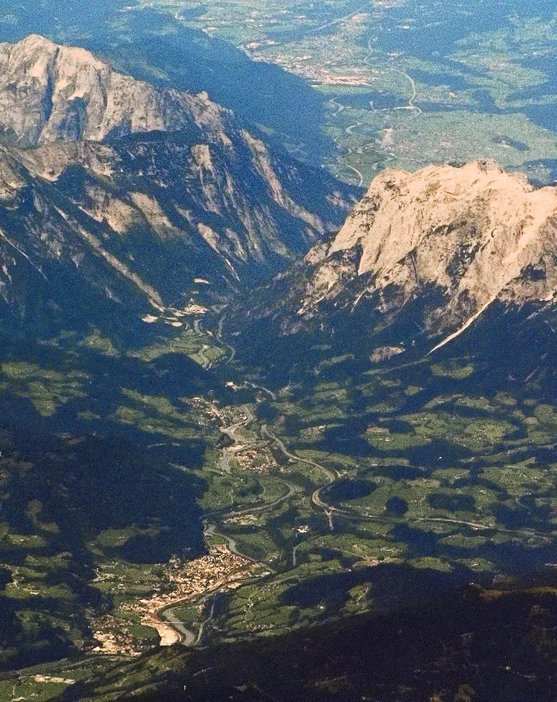 Pass between Tennengebirge and Hagengebirge (near the town Werfen)